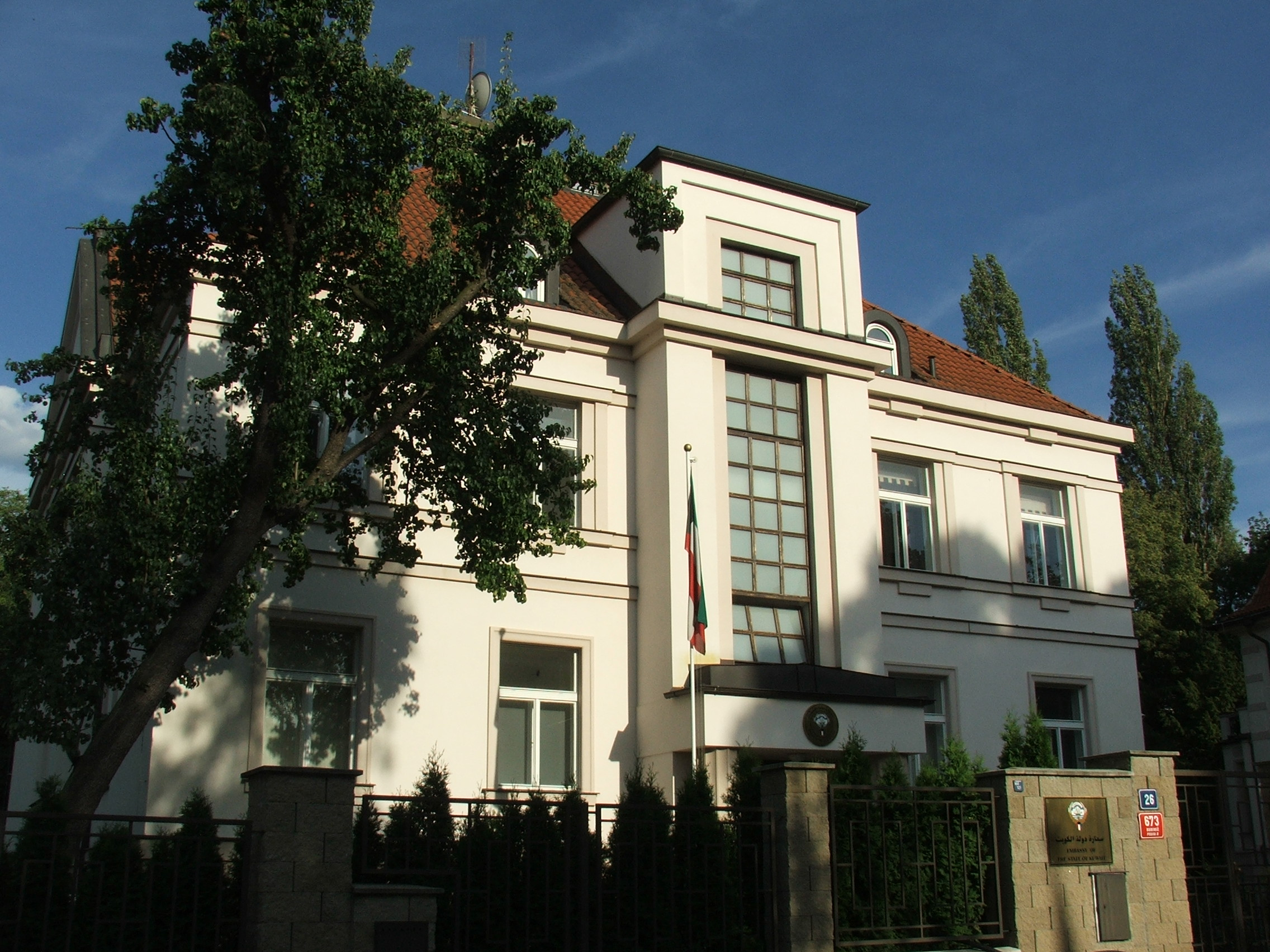 Embassy of Kuwait in Prague - Bubeneč, Czechia